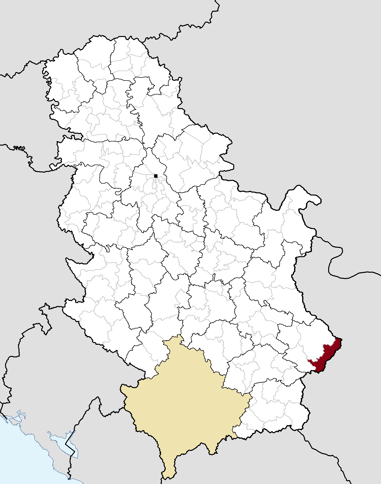 Municipal location in Serbia